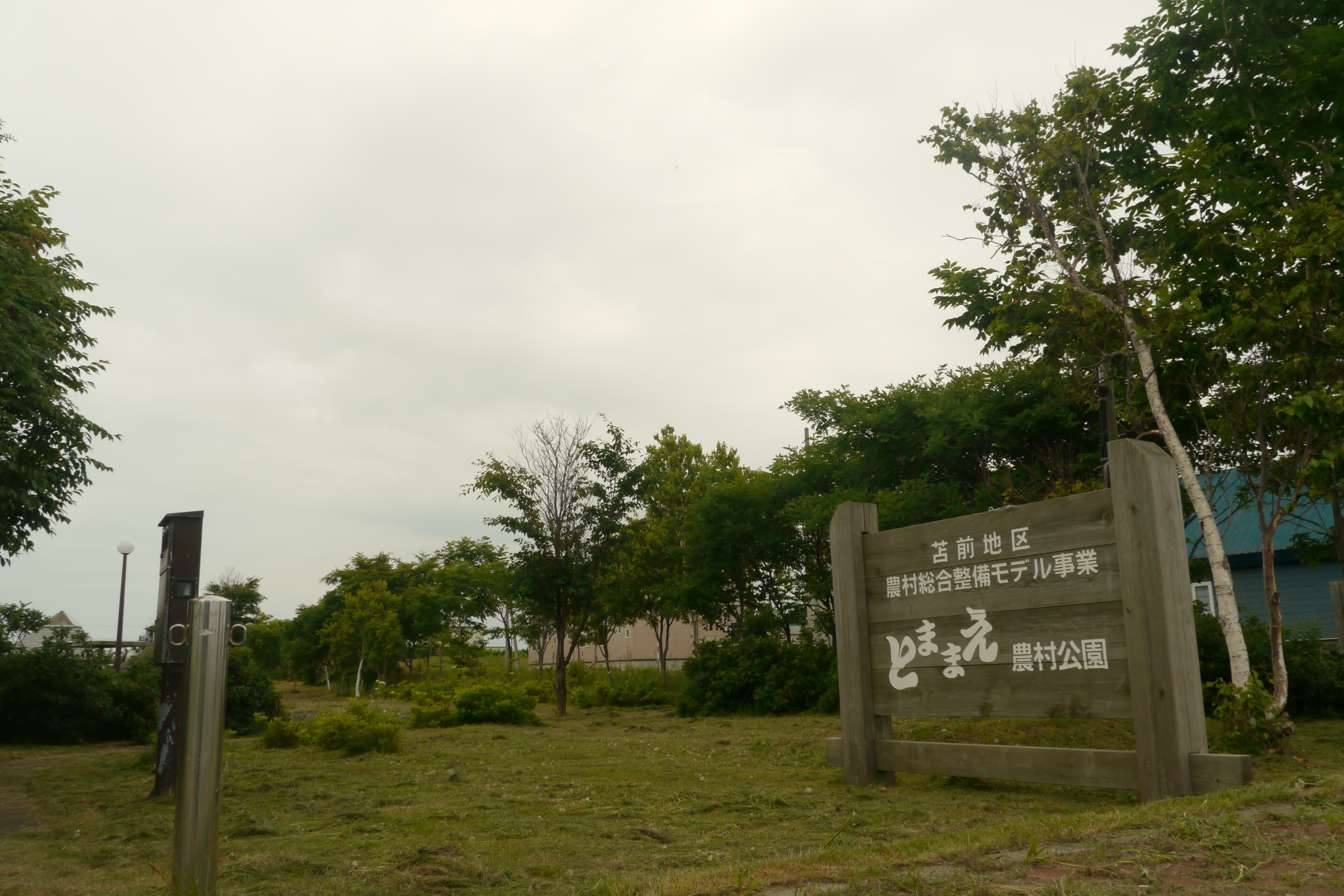 The remains of Tomamae Station of the Haboro Line in Hokkaido, Japan. Photo taken on July 27, 2011.